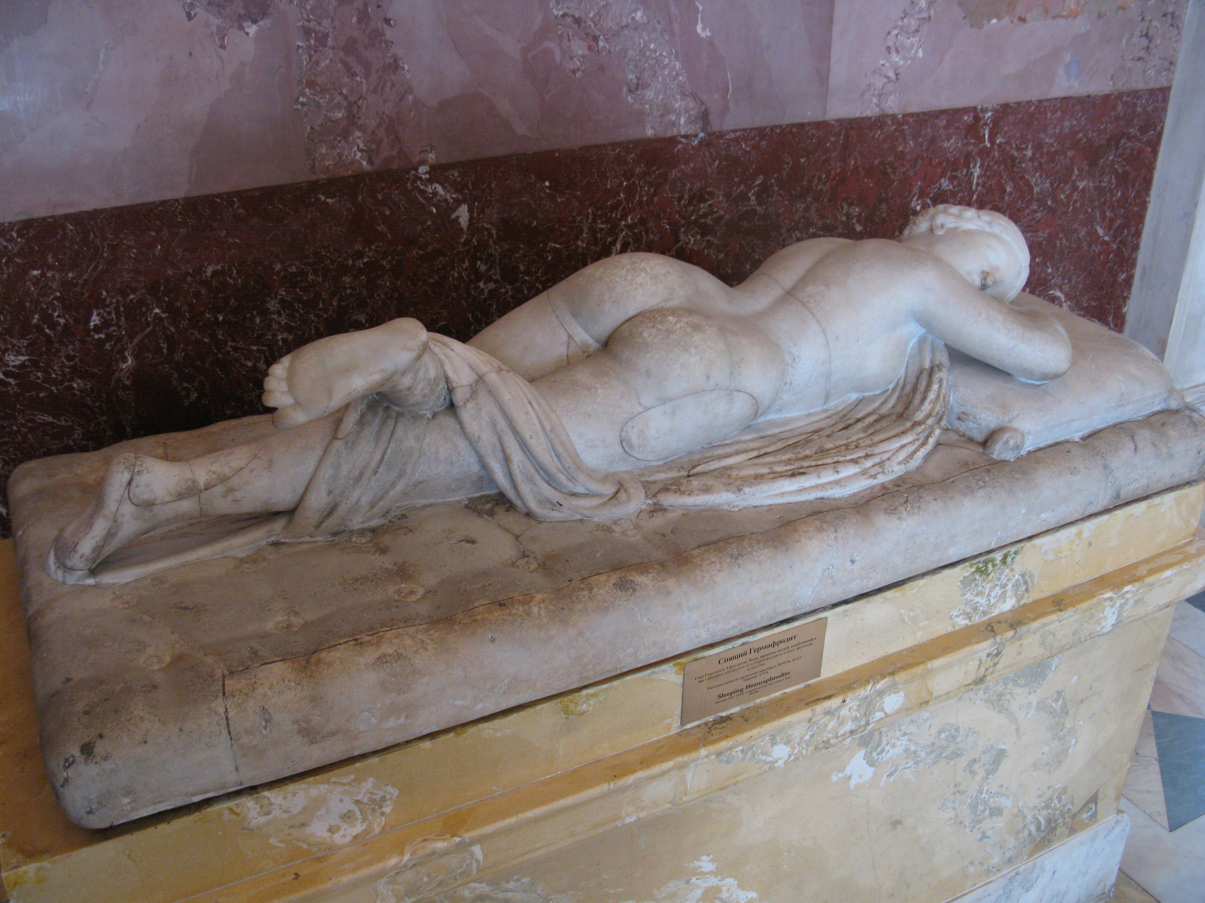 Sleeping Hermaphrodite. Roman, after Greek original of 3rd-2nd century BC. Marble. The State Hermitage Museum, St Petersburg, Russia.